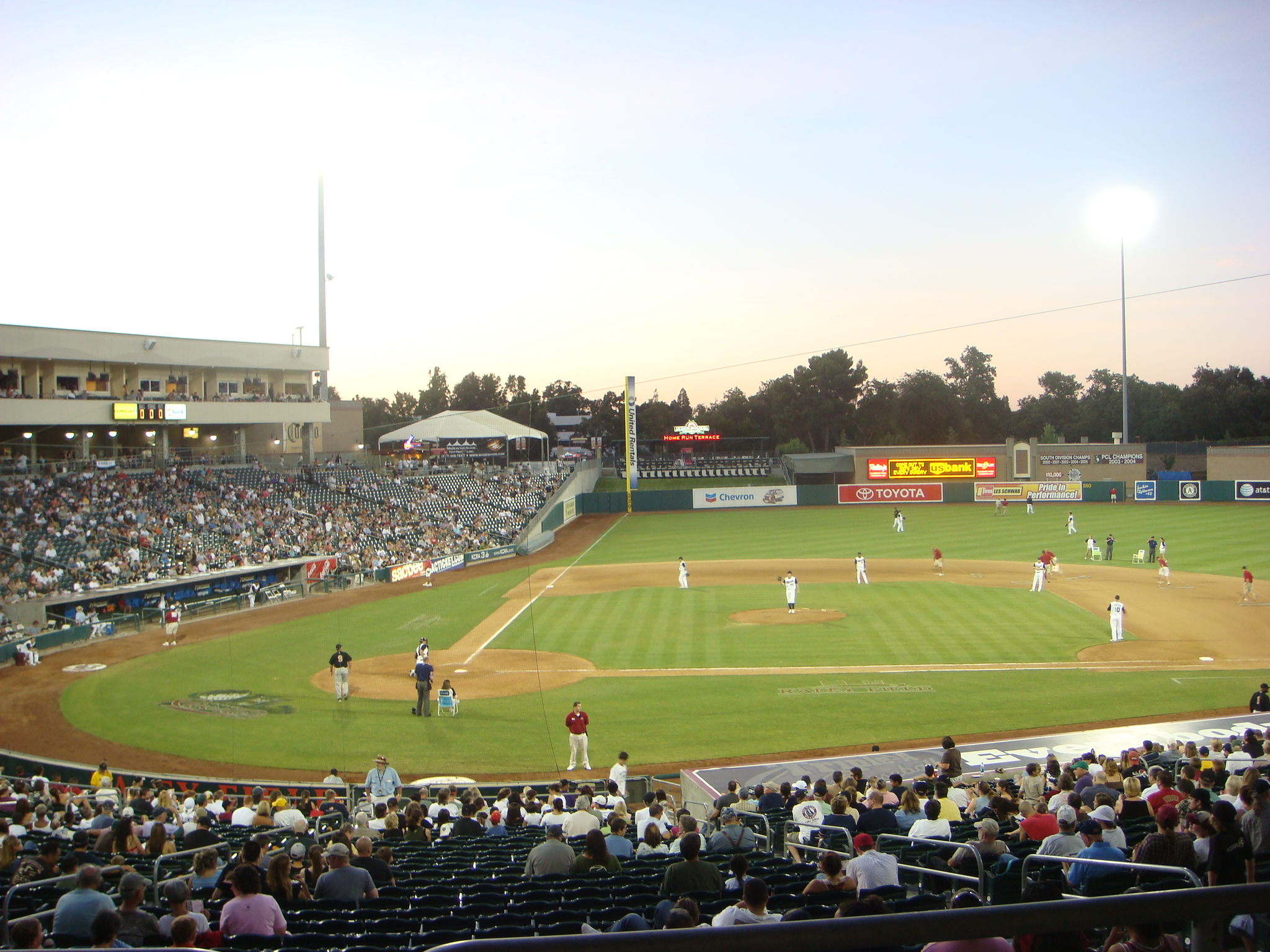 Sacramento Rivercats vs the Tuscon Sidewinders.